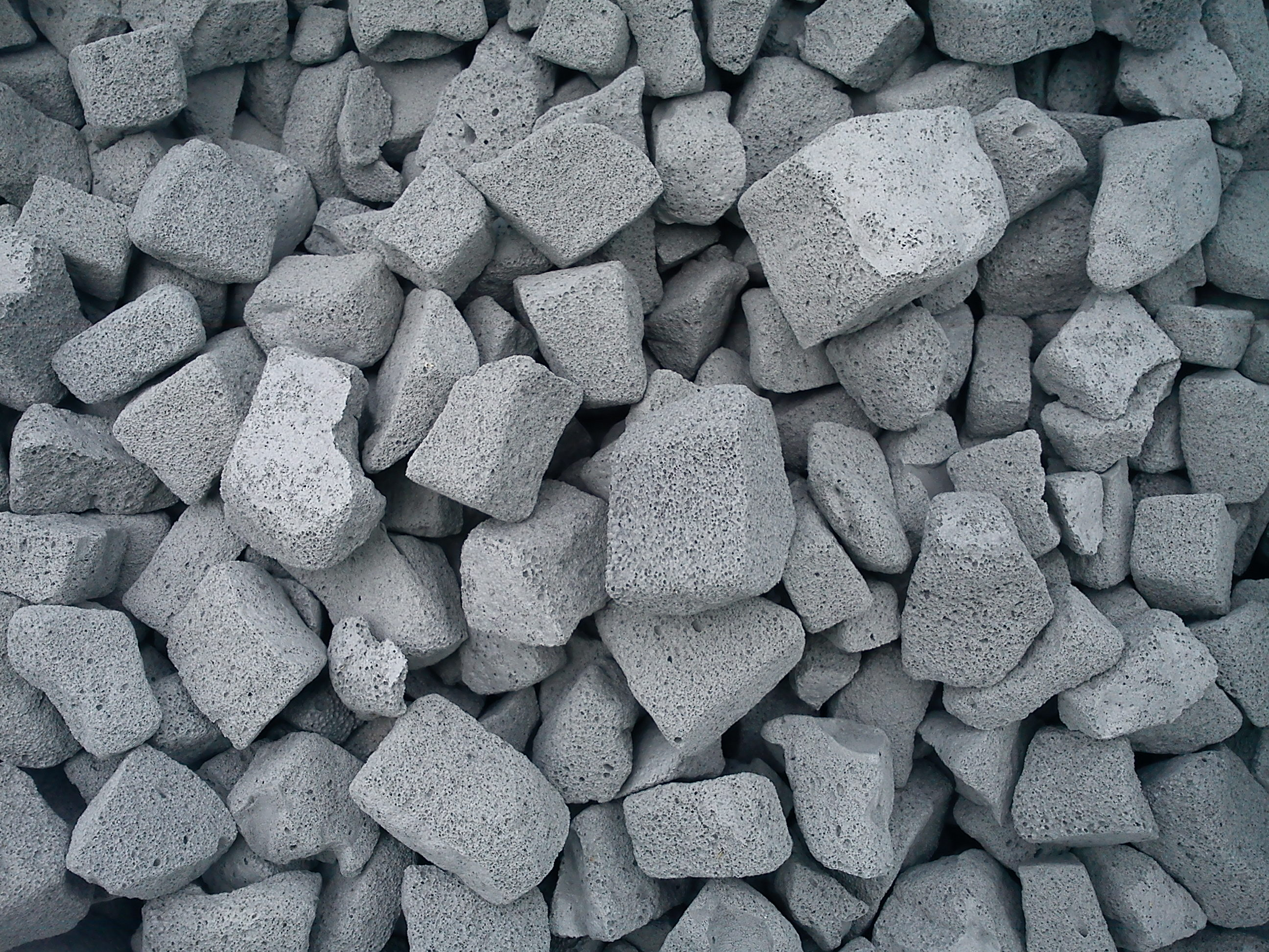 glass foam granulate